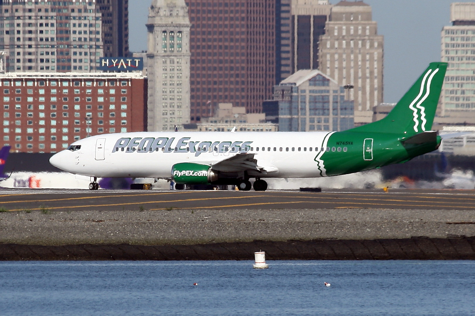 'Ruby 351' lining up on 27